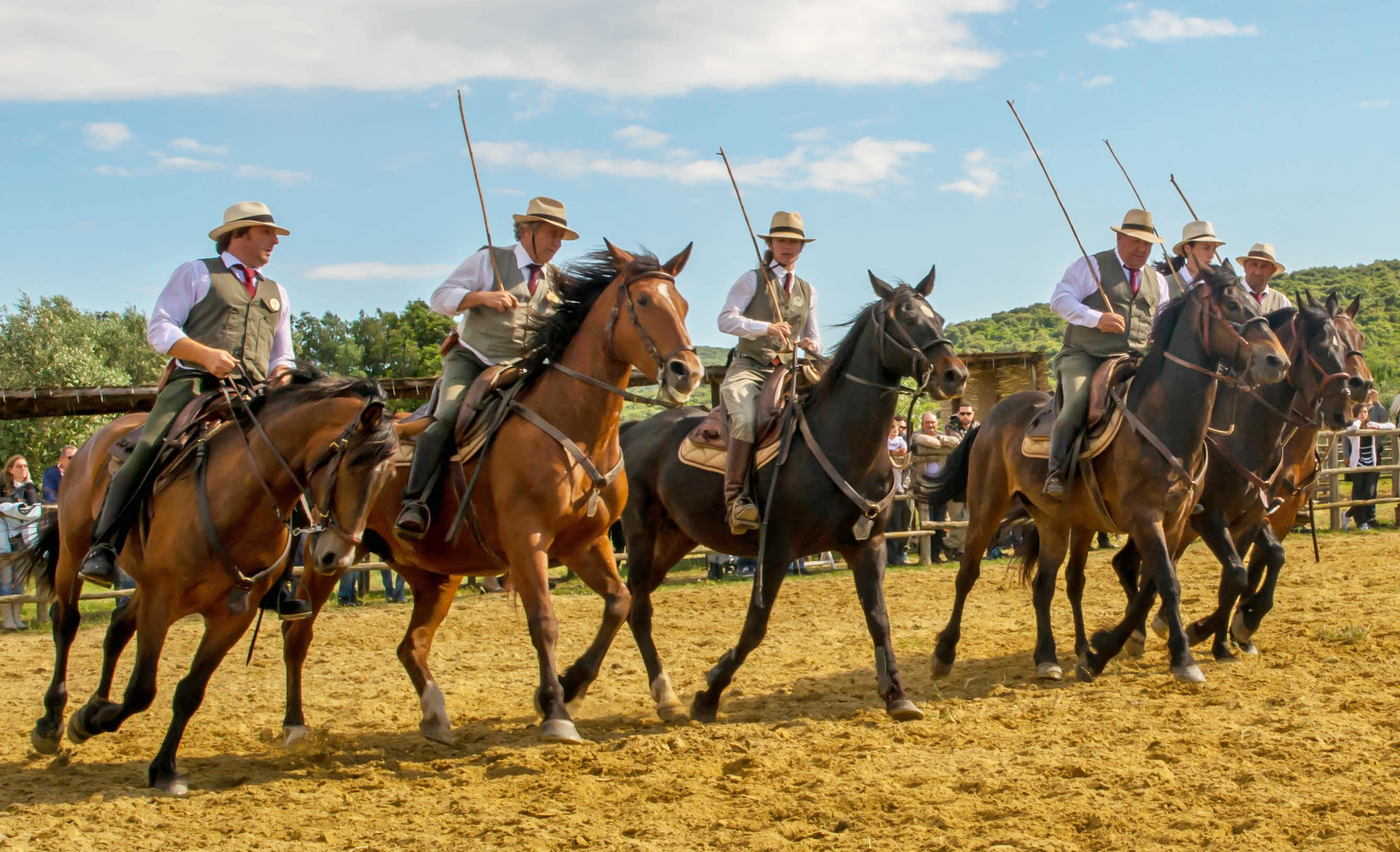 Butteri from Tuscany riding Maremmano horses.